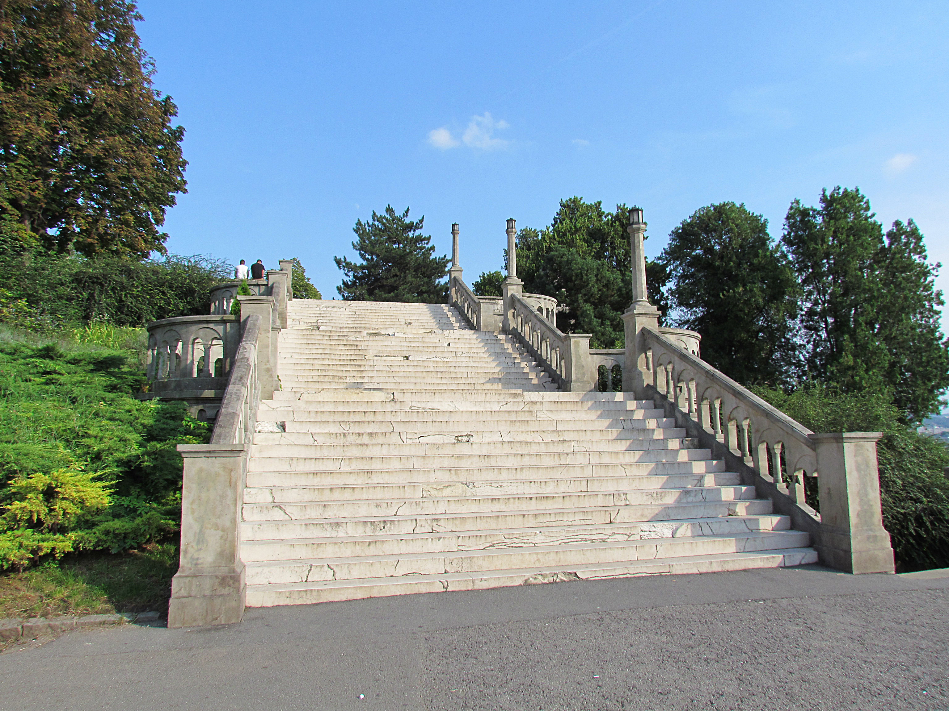 Big stairs (Veliko stepeniste) Kalemegdan park, Belgrade